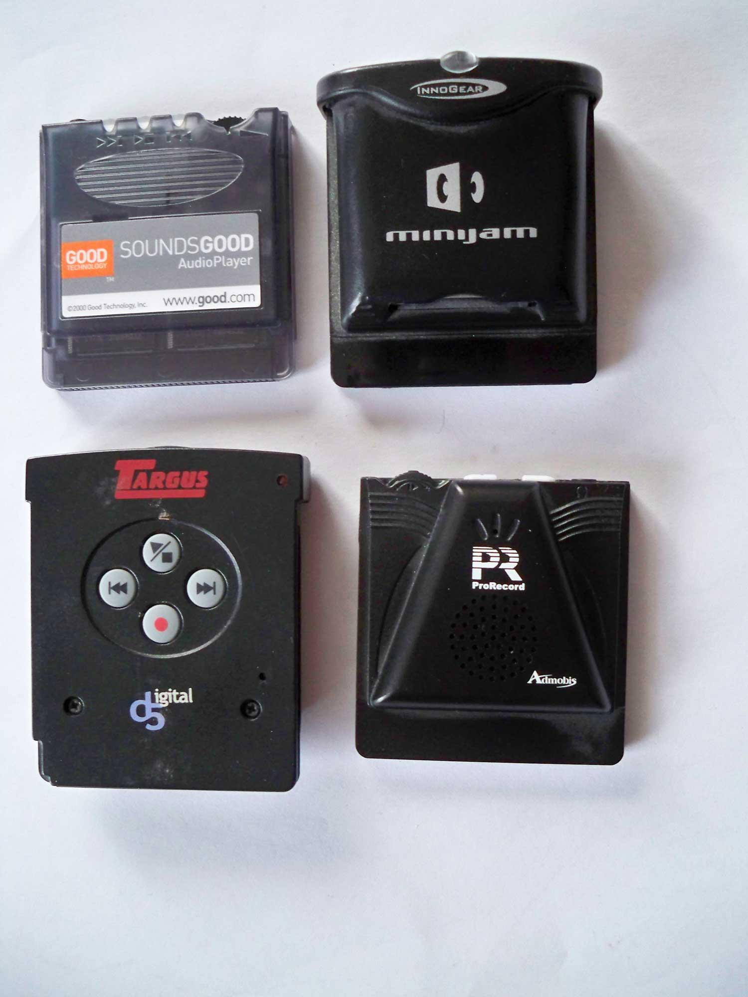 Springboard Expansion modules for PDA Handspring Visor: MP3 Player, Audio Recorder